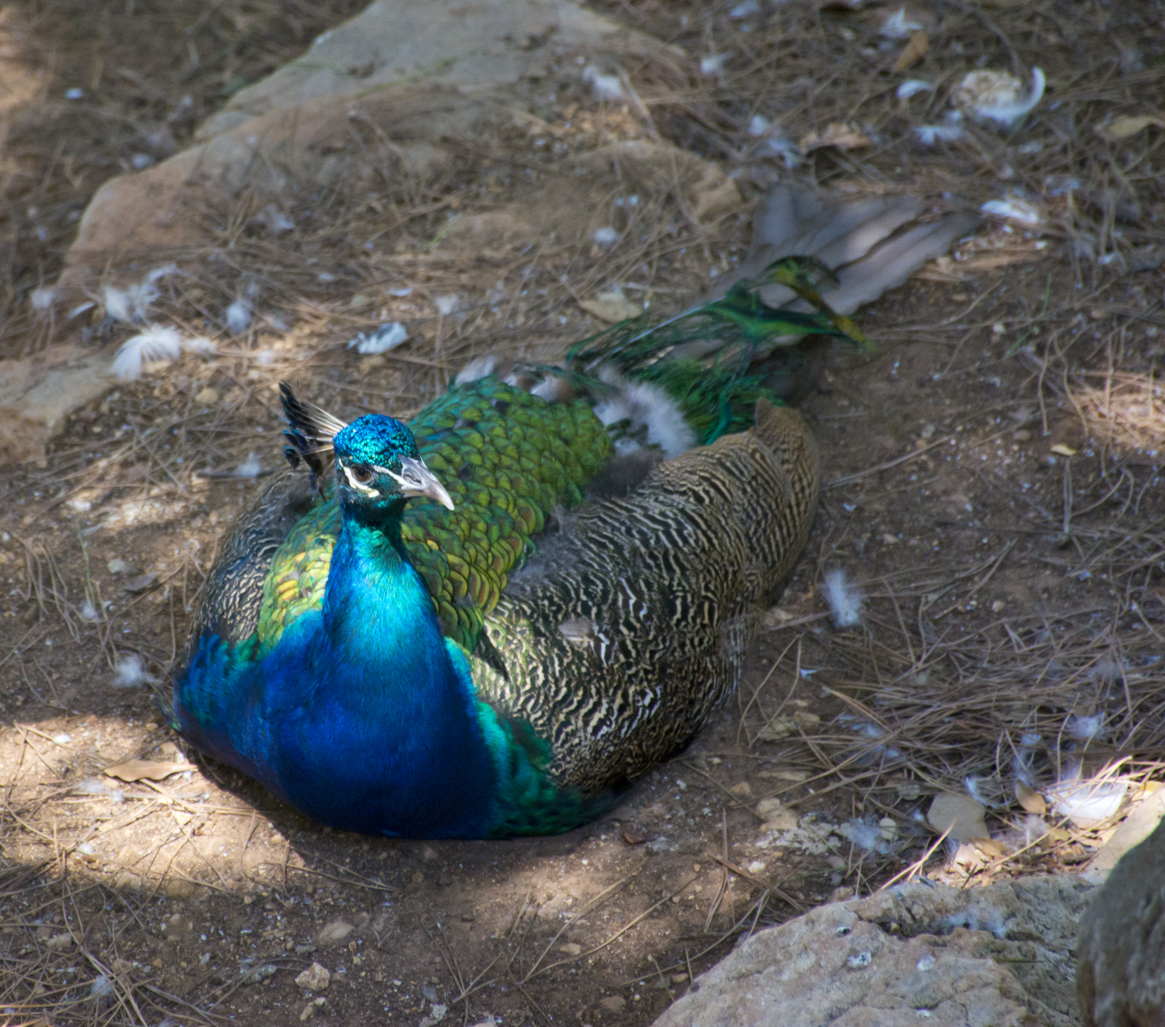 Haifa Educational Zoo, Haifa, Israel